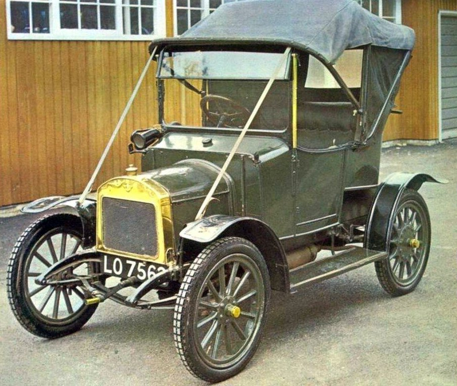 1911 Austin 7 h.p. tourer LO 7562, engine number 7054 Info from The Edwardian Austin, Ian Dimmer Probably photographed at the Montagu Motor Museum in the 1960s